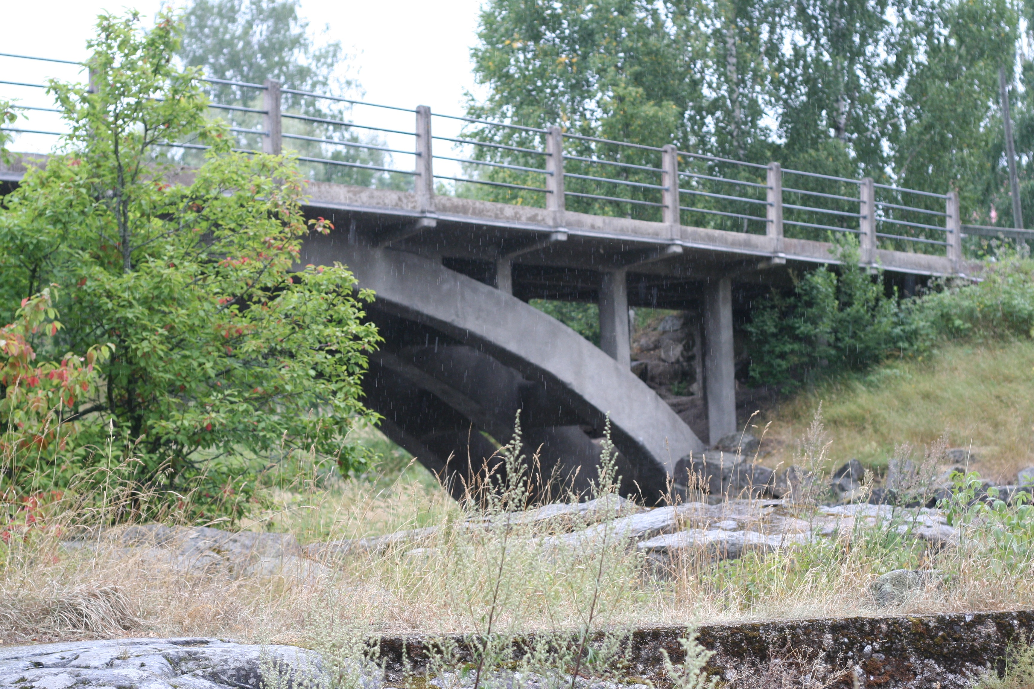 Tönnö Bridge in Orimattila, Finland